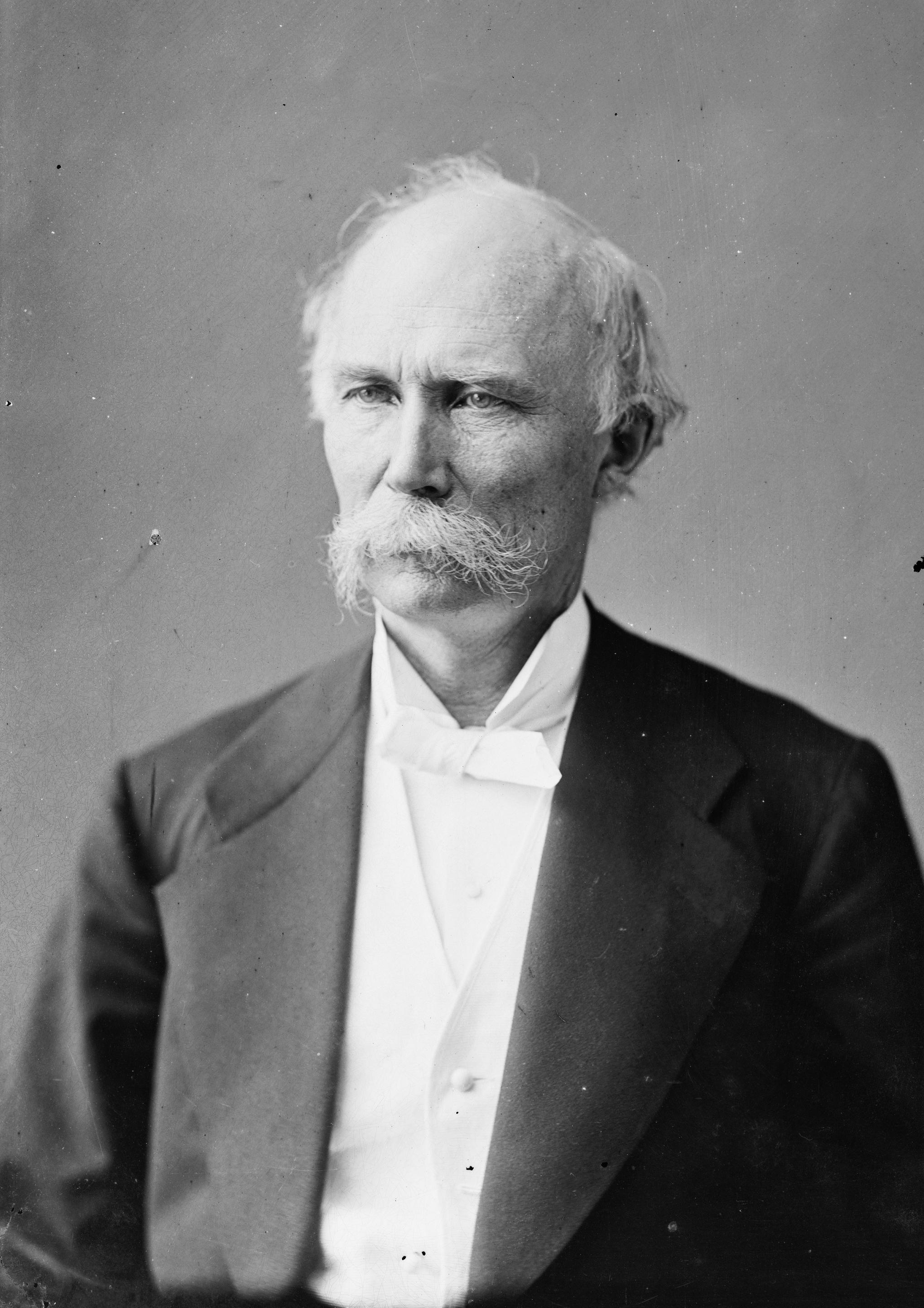 Angus Cameron. Library of Congress description: "Cameron, Hon. Angus of WI"